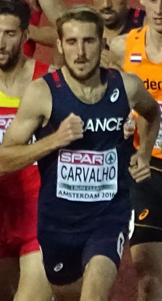 1500 metres final at the 2016 European Championships in Athletics in Amsterdam.